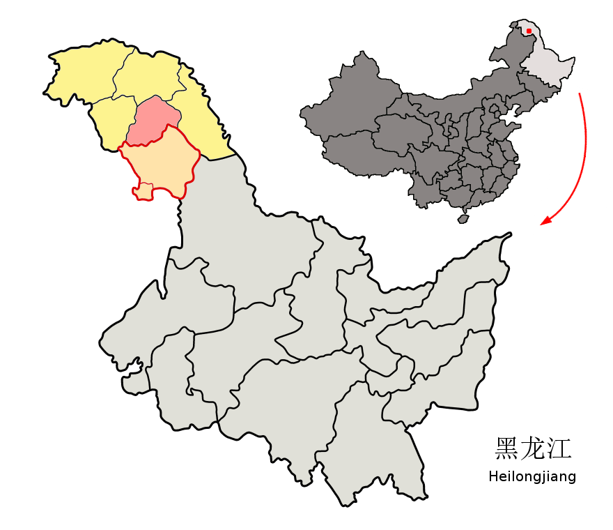 Location of Xinlin District (pink) and Daxing'anling Prefecture (yellow) within Heilongjiang Province of China. Jiagedaqi and Songling Districts (light salmon), under Heilongjiang administration, nominally belong to Inner Mongolia. Map drawn in november 2007 using various sources, mainly : Heilongjiang Province administrative regions GIS data: 1:1M, County level, 1990 Heilongjiang Counties map from Map of Daxing'anling Prefecture